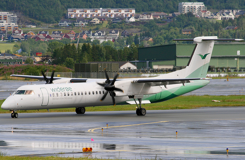 Widerøe Q400